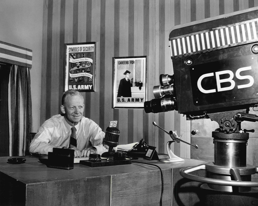 Photo of sportscaster Red Barber from his television program Red Barber's Club House.